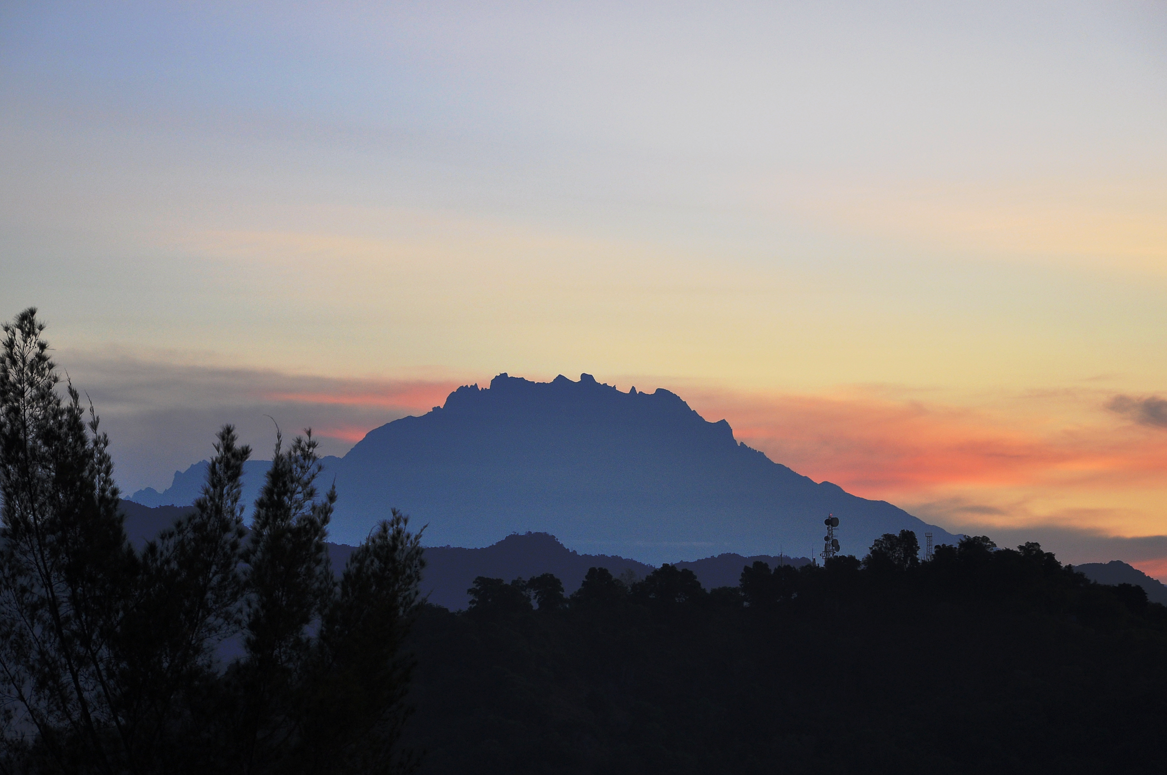 Mount Kinabalu, Sabah, Malaysia. Photo taken at sunrise from Tanjung Aru (near Kota Kinabalu). Good silhouette of the rock formations of the very top of the mountain (an icon in sabah).